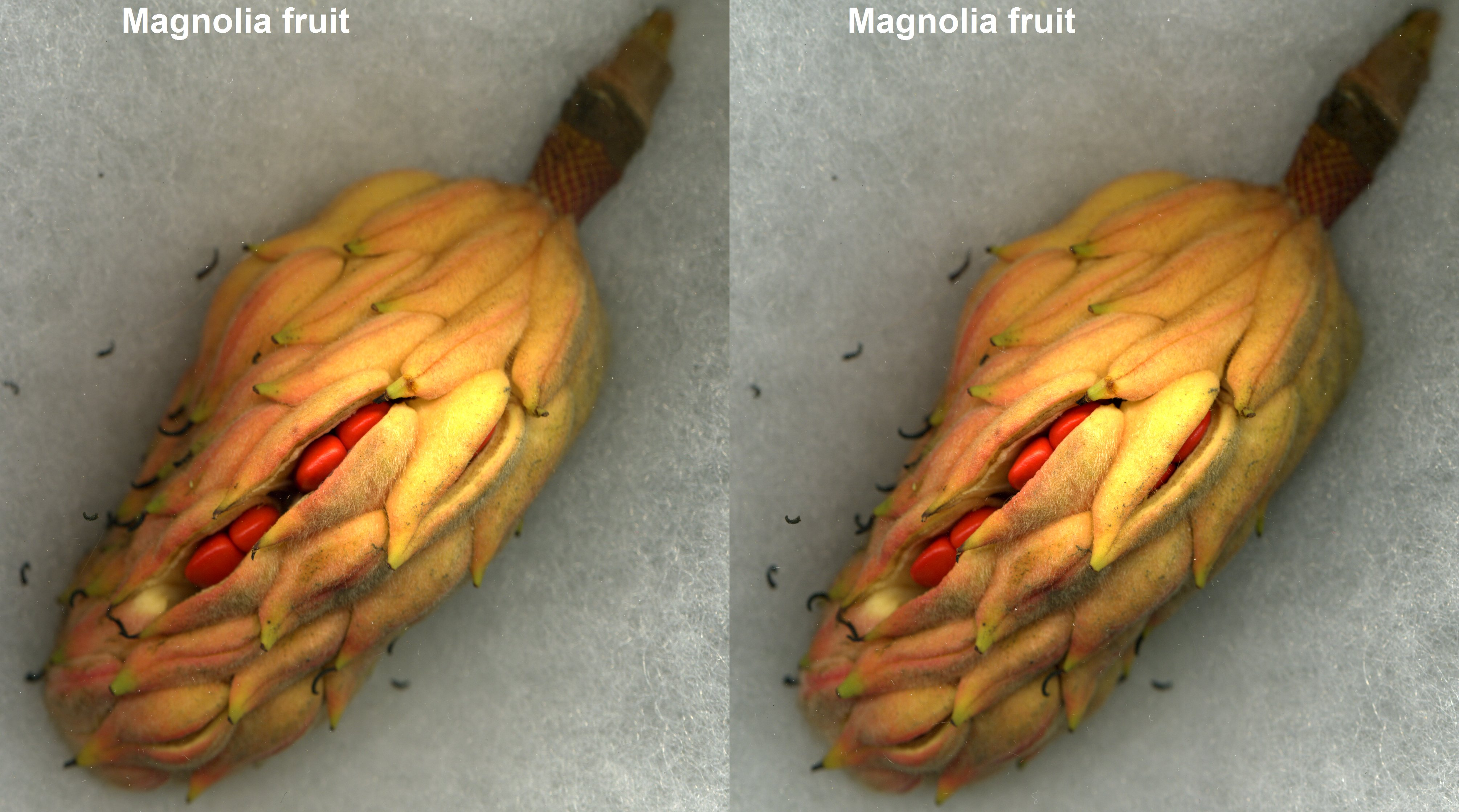 Magnolia Fruit, just starting to expose seeds.